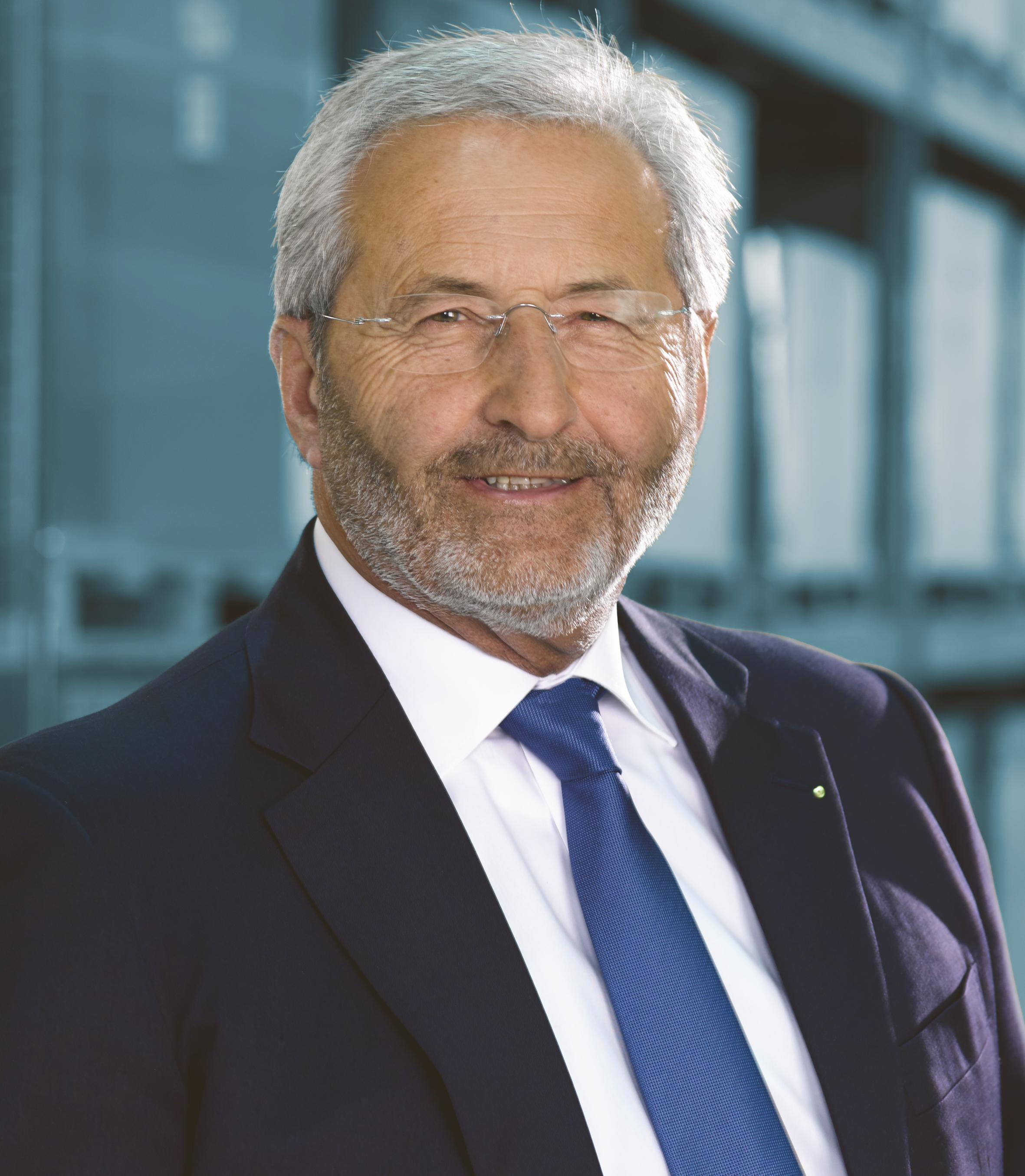 Rudolf Rampf